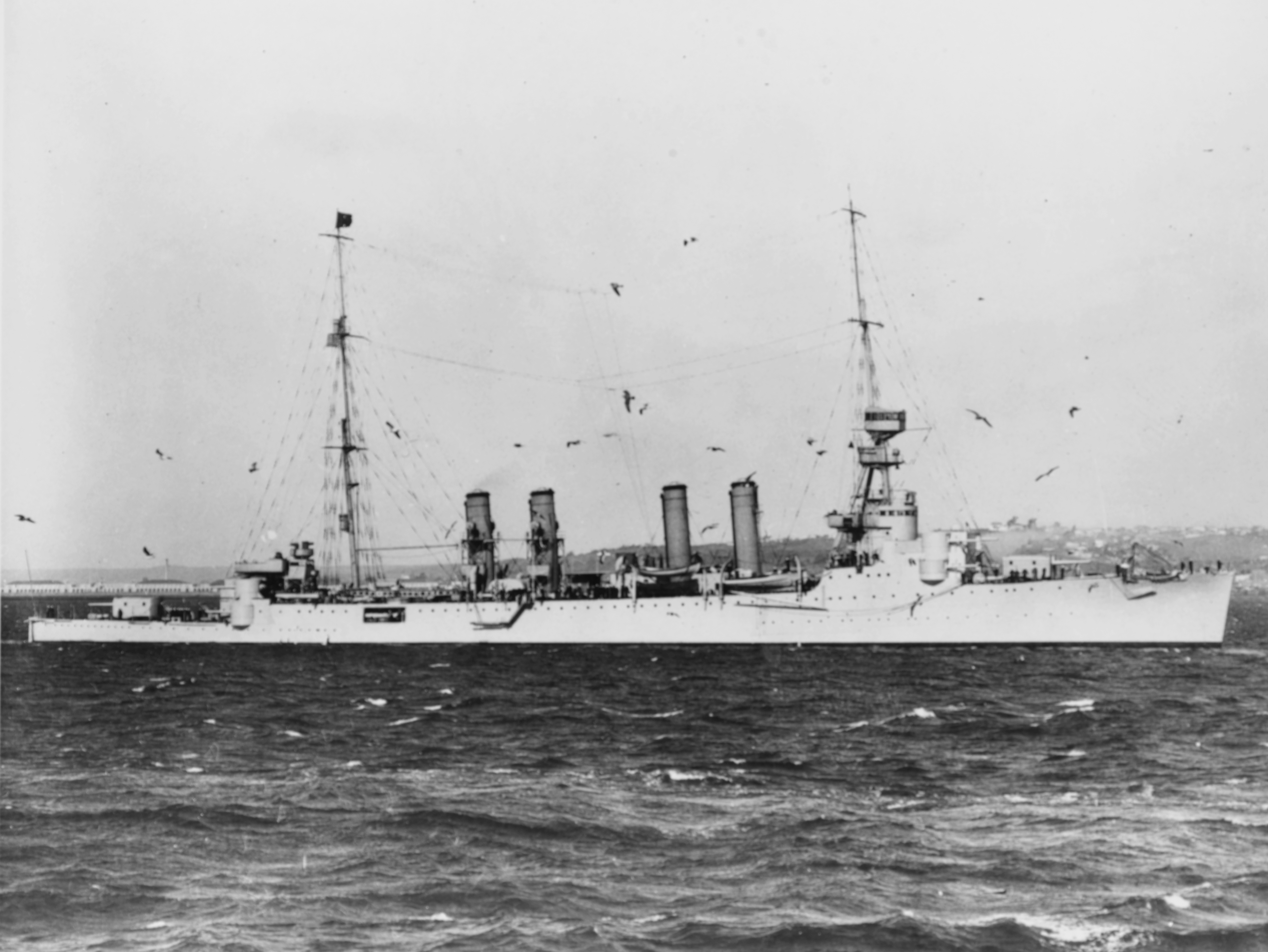 The U.S. Navy light cruiser USS Omaha (CL-4) in harbour on 8 December 1923.